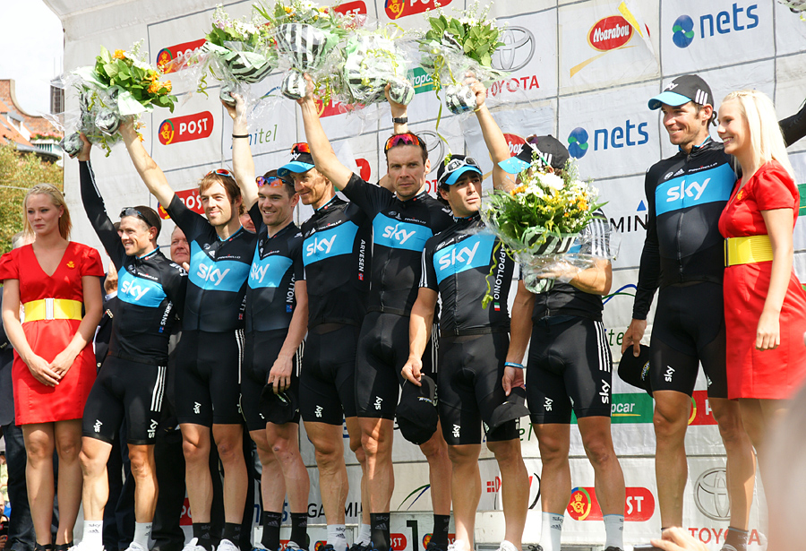 Team Sky after winning the Team-competition in 2011 Danmark Rundt